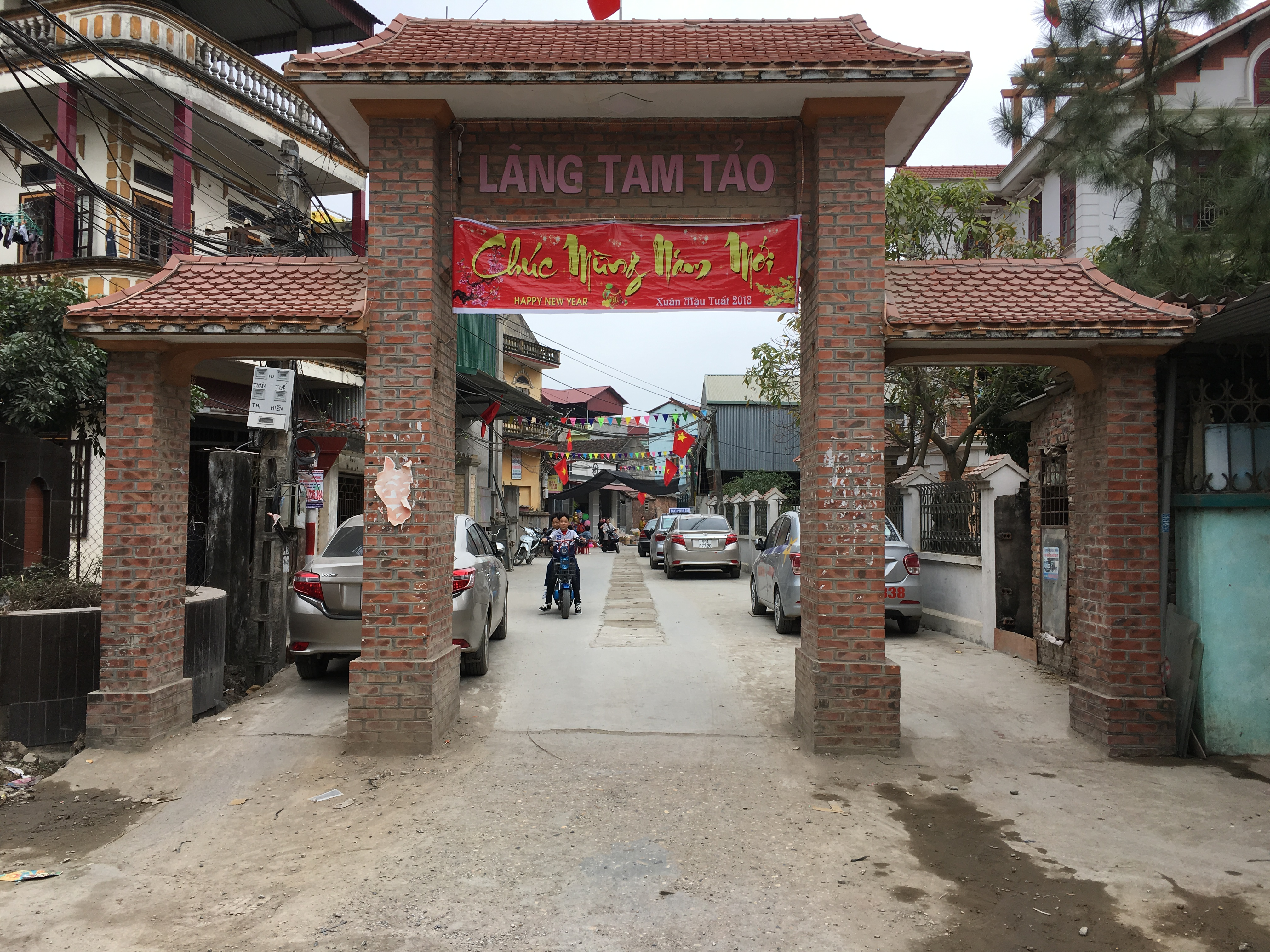 Tam Tao village gate to be decorated in Lunar New Year 2018